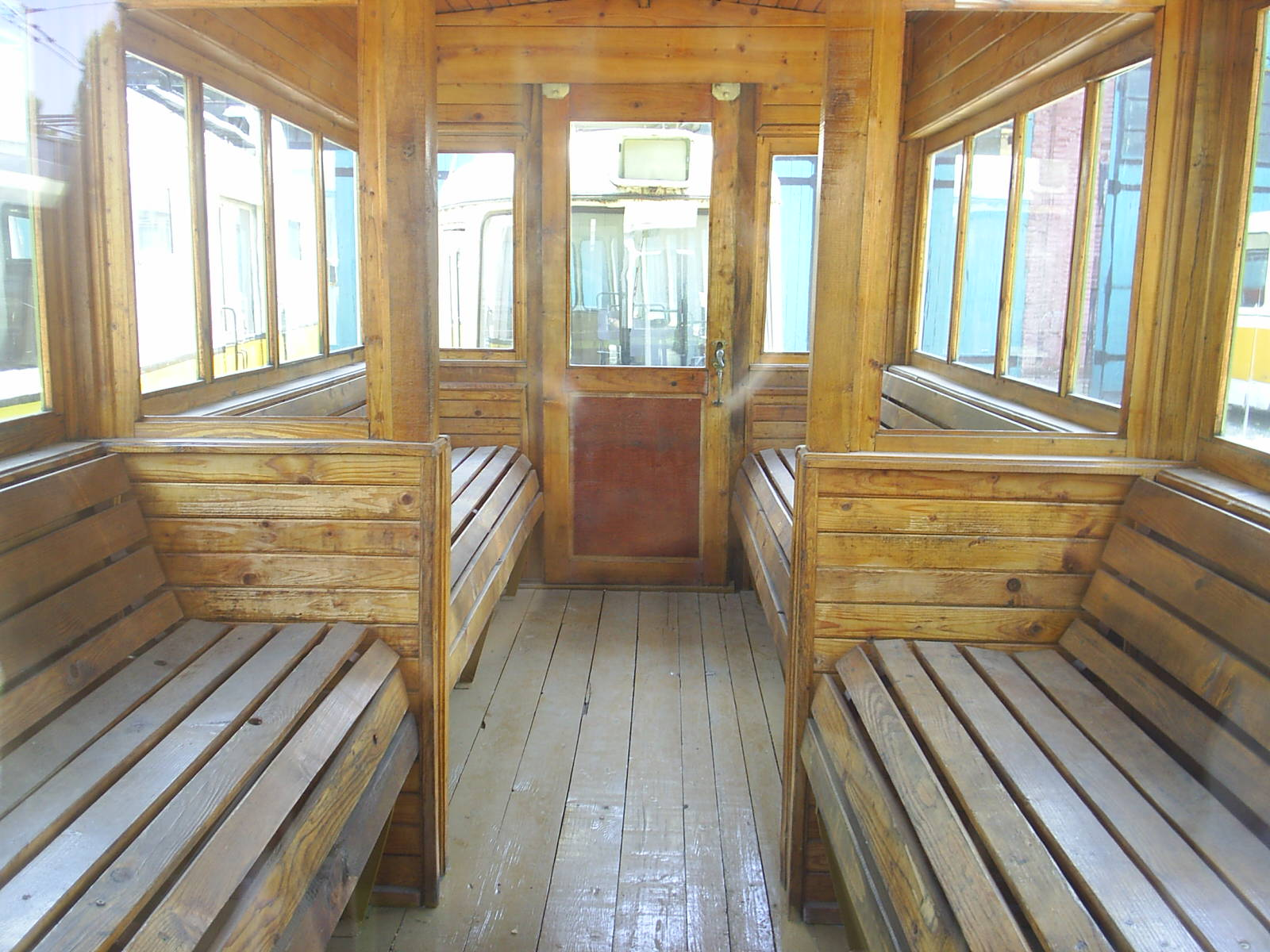 inside horsetram